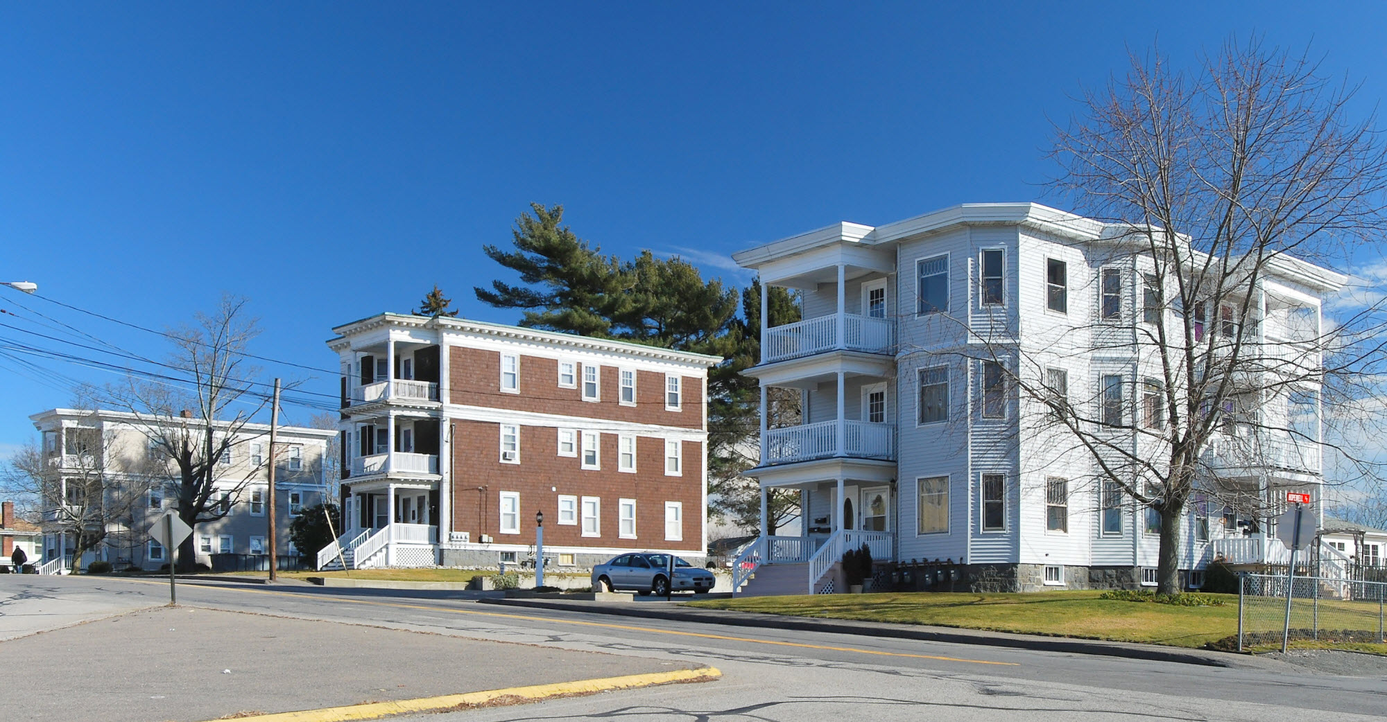 Historic Triple-decker houses at 80-88 West Brittania Street, Taunton, Massachusetts